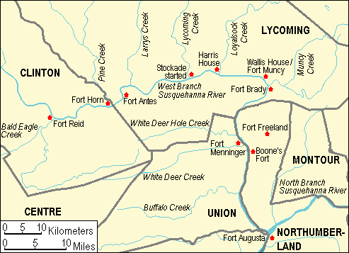 Map of Fortifications in north central Pennsylvania, United States during the Big Runaway and Little Runaway, 1778-1779